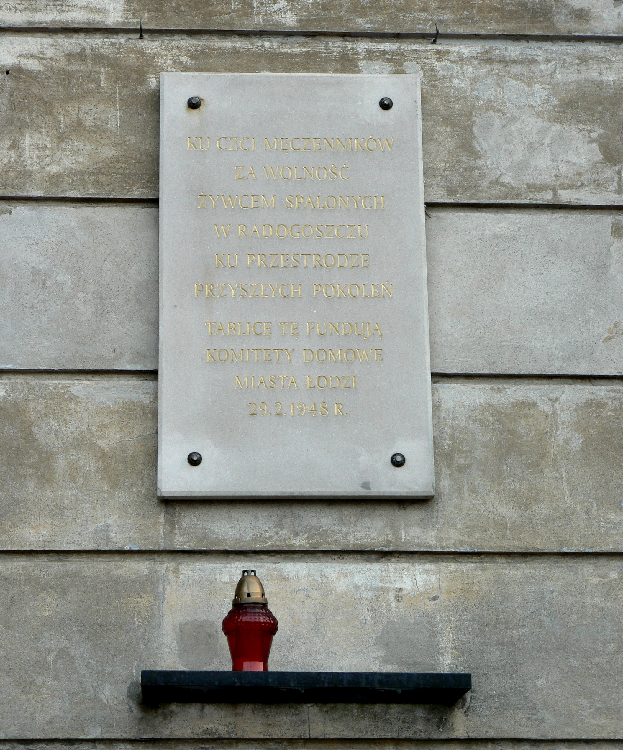 Memory plaque on the wall of the Holy Spirit Church in Łódź. Commemorates prisoners who were murdered and burned alive in the Radogoszcz prison.